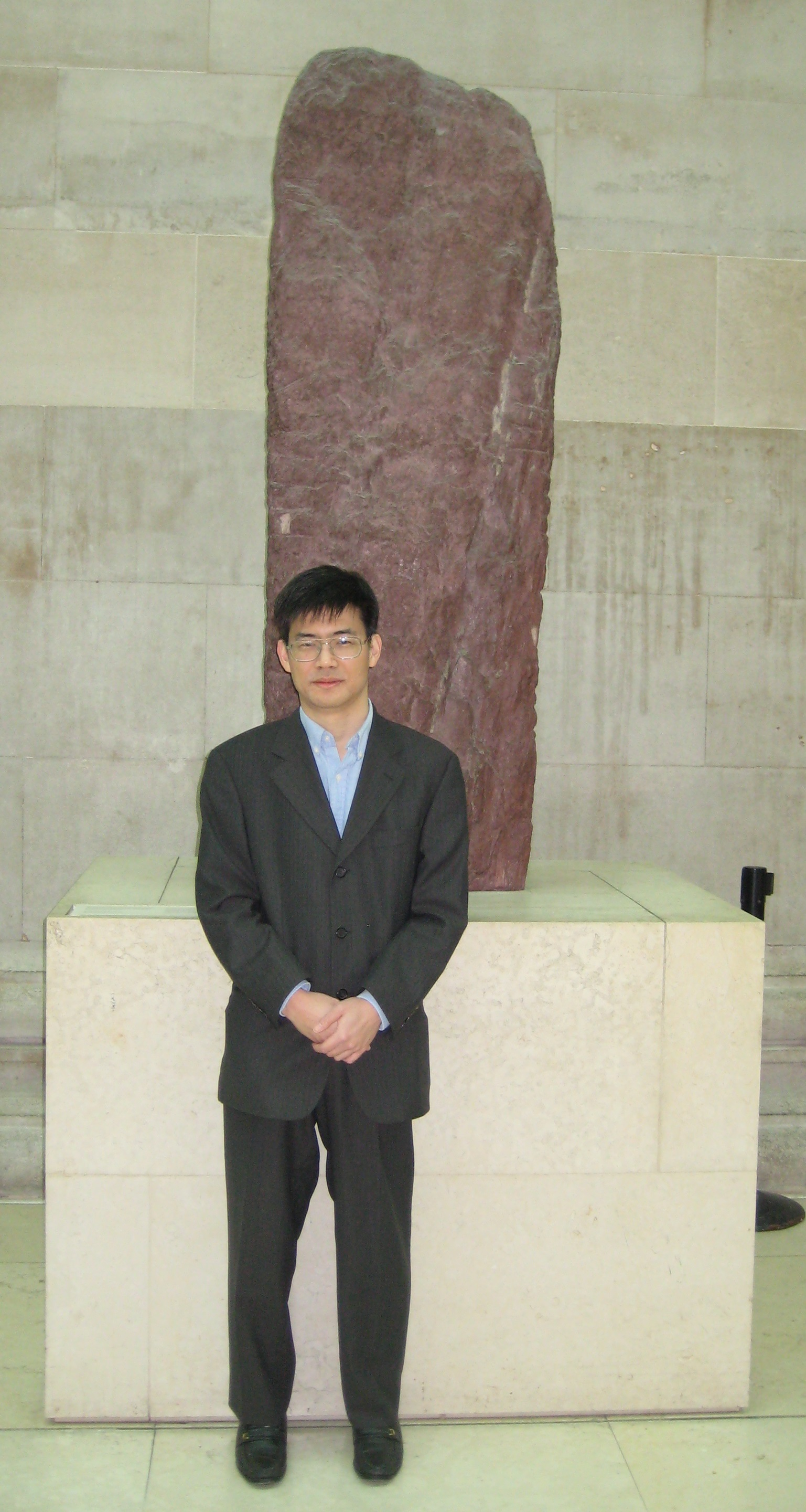 Marc Miyake at the British Museum, London, February 2015. Behind him is an ogham stone from Roovesmore Rath, County Cork, Ireland (see British_Museum_Ogham_Stone_1a.jpg).